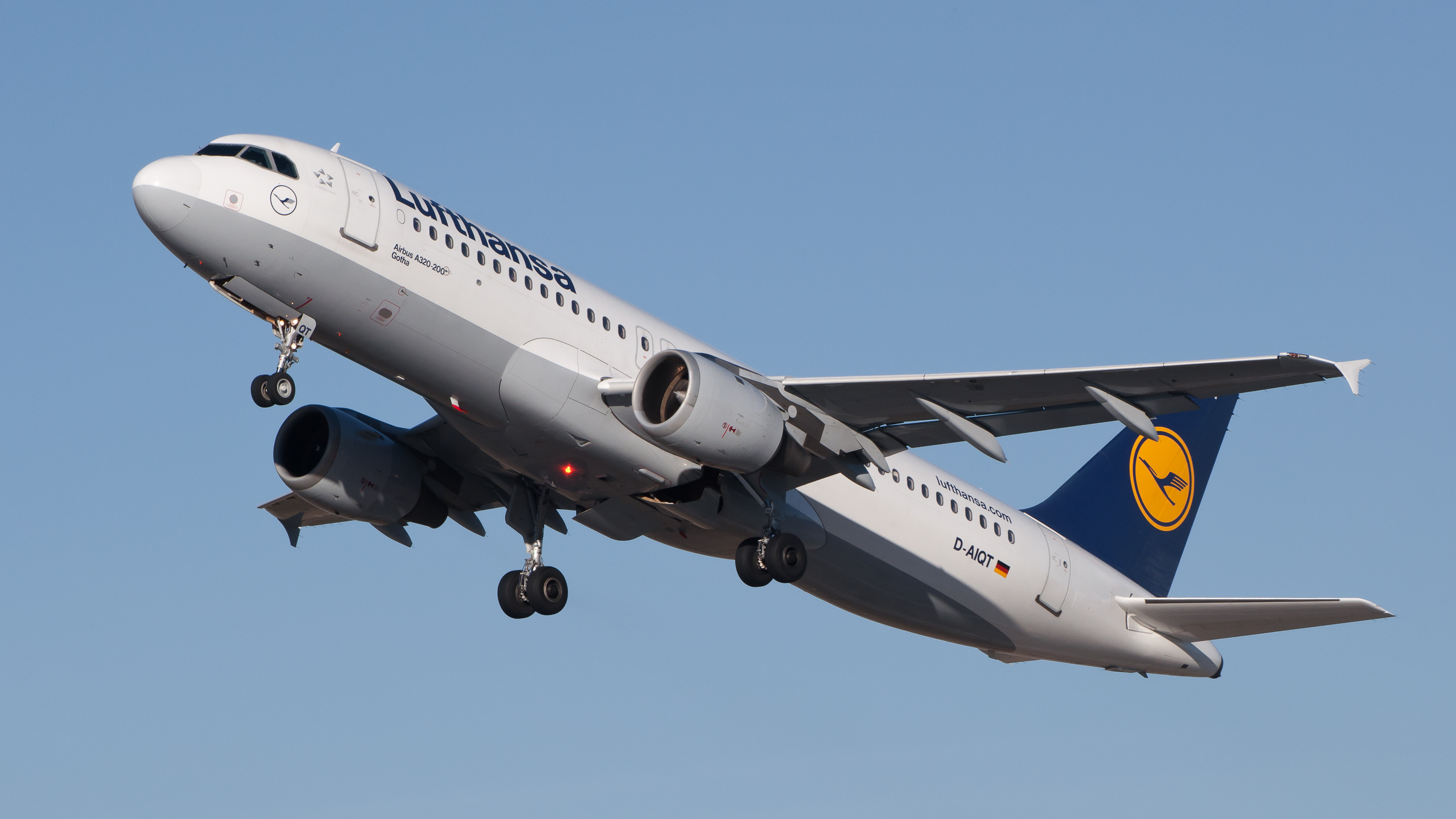 Lufthansa Airbus A320-211 (reg. D-AIQT, cn 1337) taking off at Stuttgart Airport (EDDS/STR). The A320 series has two variants, the A320-100 and A320-200. Only 21 A320-100s were produced; these aircraft, the first to be manufactured, were only delivered to Air Inter (later acquired by Air France) and British Airways (as a result of an order from British Caledonian Airways made prior to its acquisition by British Airways). Compared to the A320-100, the primary changes on A320-200 are wingtip fences and increased fuel capacity for increased range. Indian Airlines used its first 31 A320-200s with double-bogie main landing gear for airfields with poor runway condition which a single-bogie main gear could not manage. Typical range with 150 passengers for the A320-200 is about 3,300 nmi (6,150 km). It is powered by two CFMI CFM56-5s or IAE V2500s with thrust ratings between 113 to 120 kN (25,400 to 27,000 lbf). The lowest speed an A320 can fly is approximately 207 km/h